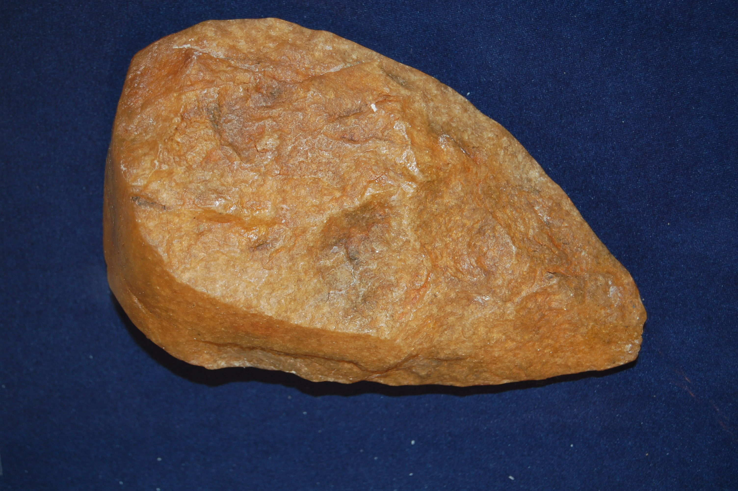 hand axe, found in Poesing, 100.000 years old